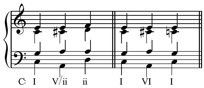 V/ii (secondary dominant) versus VI (chromatic mediant).